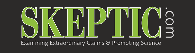 The Skeptics Society & Skeptic Magazine official website logo.